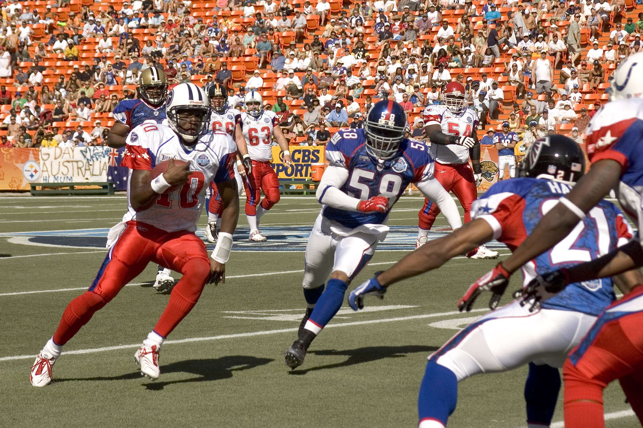 Vince Young, of the Tennessee Titans, scrambles for a first down during the Pro Bowl. The Pro Bowl, which features All-Star players from the National Football Conference (NFC) and the American Football Conference (AFC), is in its 28th consecutive year at Aloha Stadium in Honolulu, Hawaii. The linebacker #58 is Antonio Pierce.